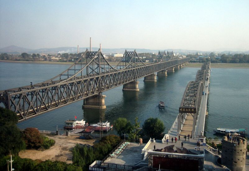 The splendid view over the Yalu River bridges into North Korea from my window at the Zhonglian Hotel in Dandong.